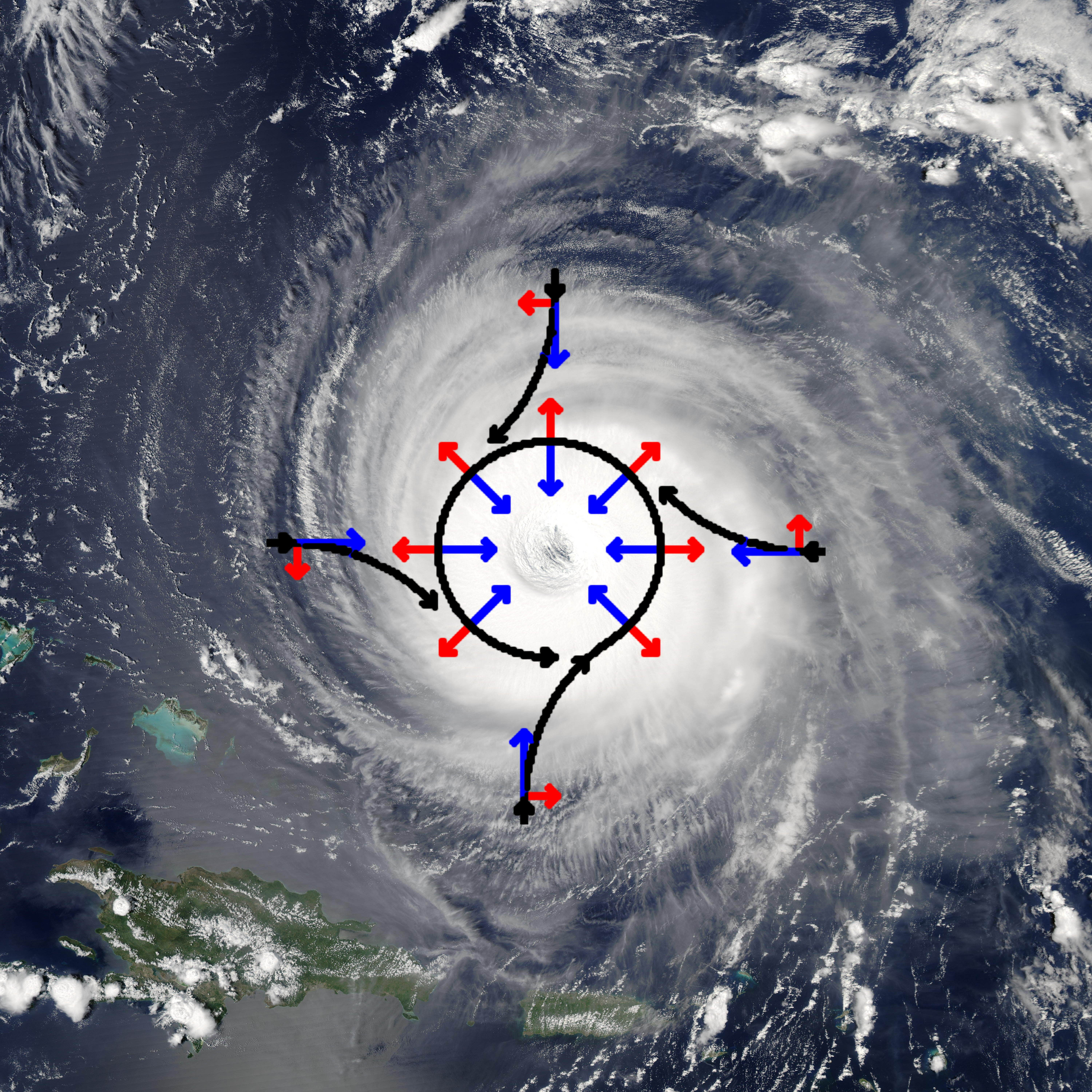 Combination of Image:Hurricane isabel2 2003.jpg and Image:Coriolis effect10.png to illustrate the Coriolis force better.